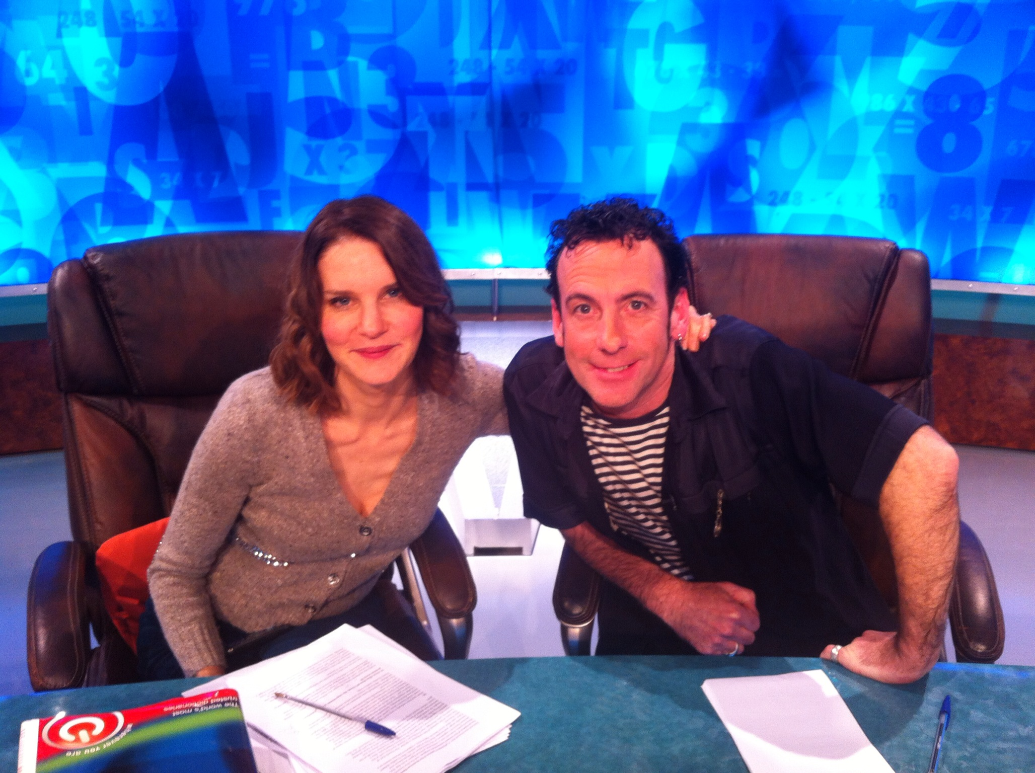 Paul Zenon as regular special guest in Dictionary Corner on Channel 4's Countdown, alongside lexicographer Susie Dent.